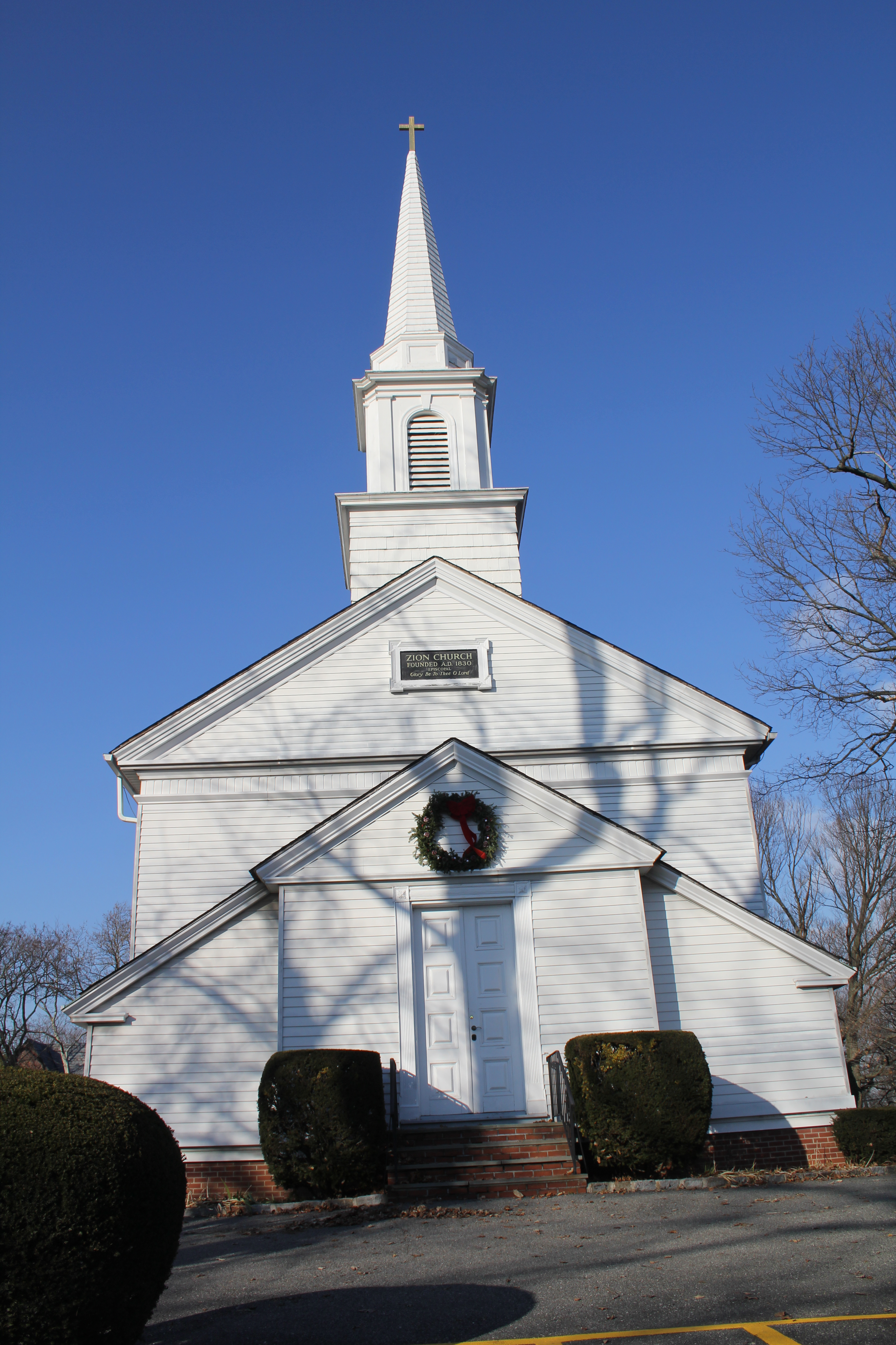 Zion Episcopal Church in Douglaston, Borough of Queens, New York City. Building dates from 1927, the church dates to 1830. Part of the Douglaston Hill Historic District.